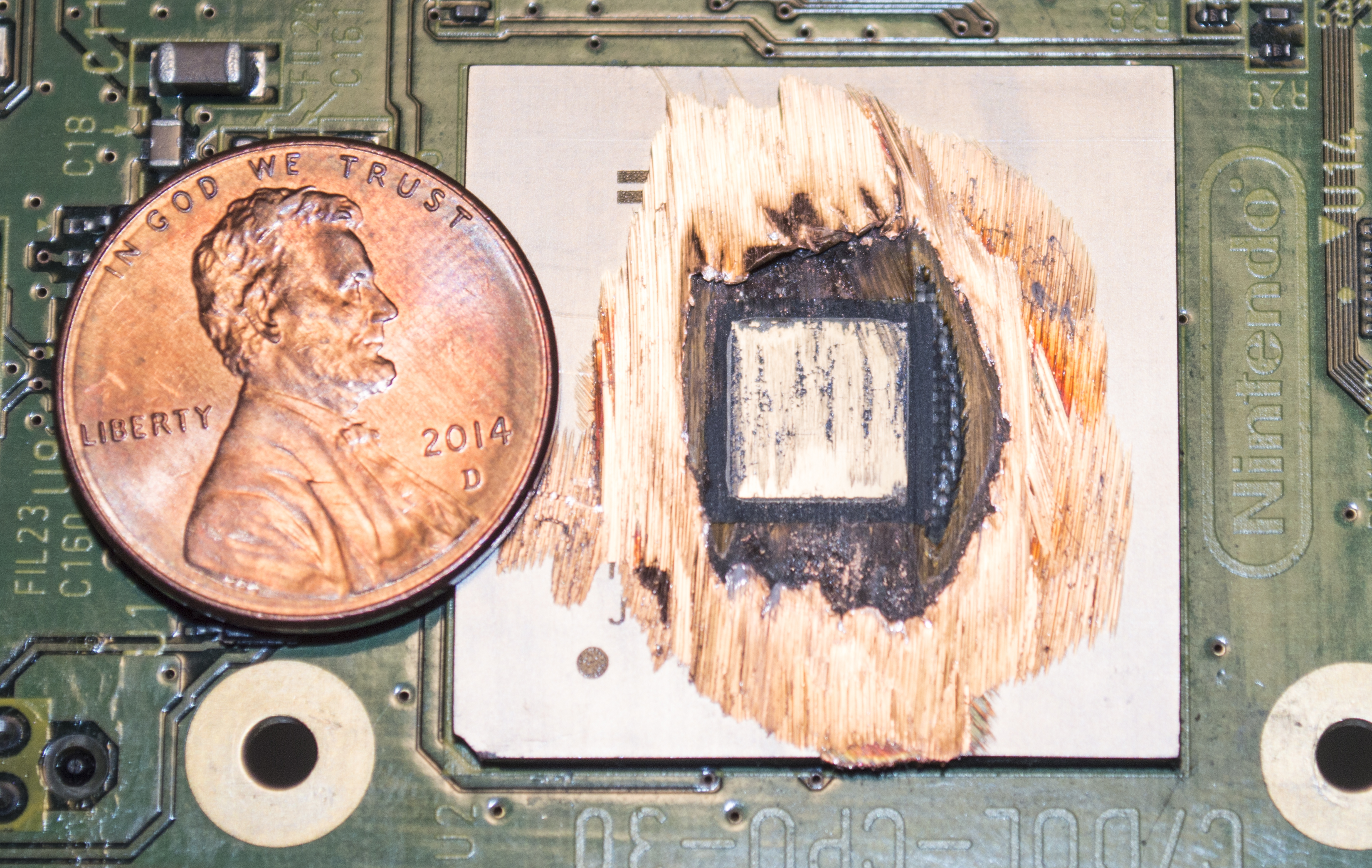 180nm IBM Gekko CPU in the Nintendo Gamecube shaven down to expose the silicon die.